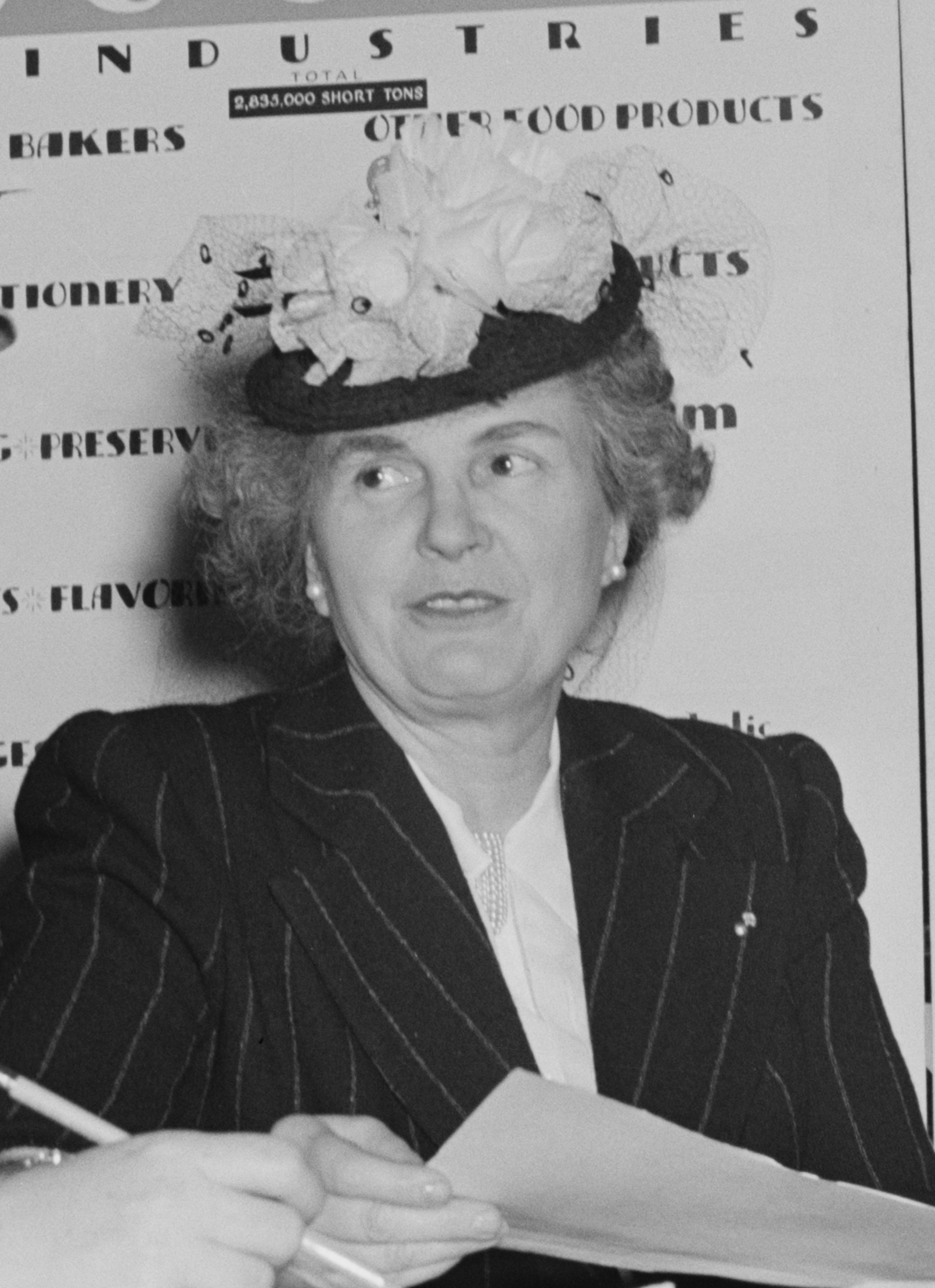 Sugar rationing. Mrs. Henry Wallace, wife of the Vice President, learns how millions of American householders will register for their sugar rationing cards from May 4th through May 7th. She's getting the information from a teacher and pupil at Western High School, Washington, D.C.